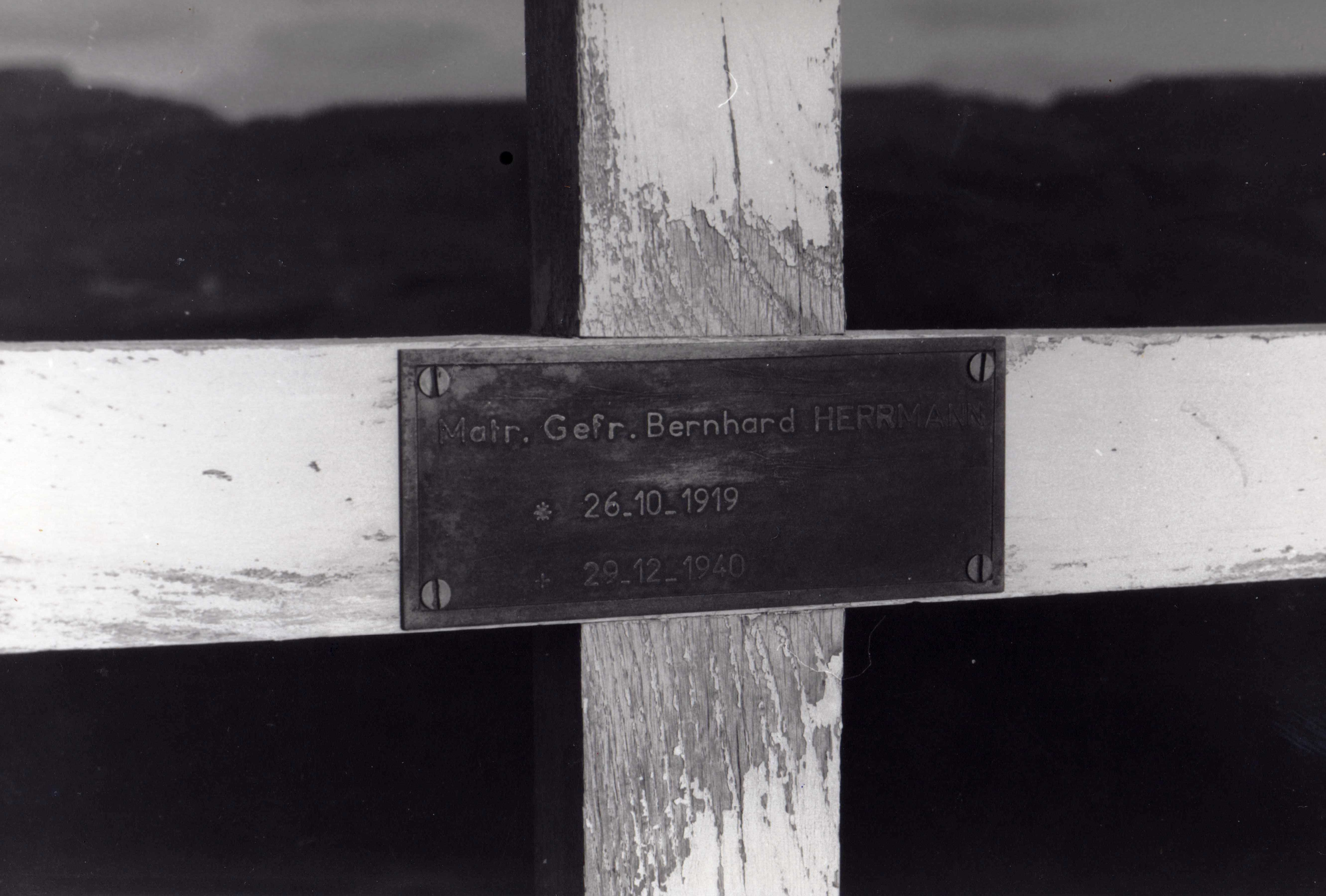 Herrmann's grave (detail of the inscription) on Kerguelen shore : Bernhard HERRMANN was a german marine soldier accidentally died in 1940